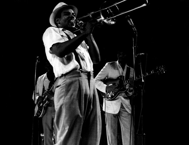 Musical group Defunkt in Paris, France